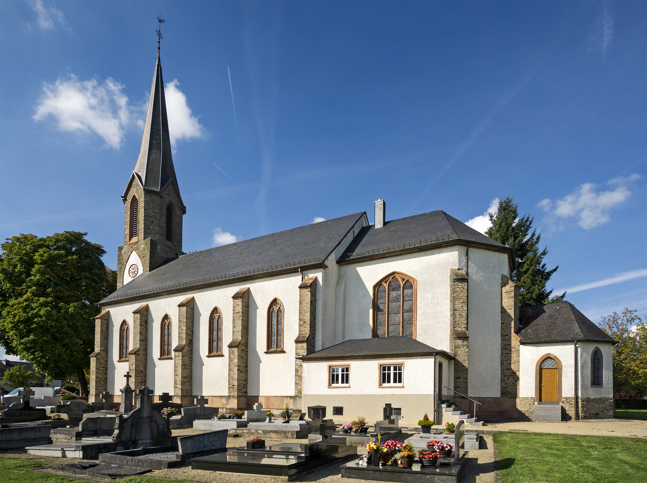 Church of Basbellain